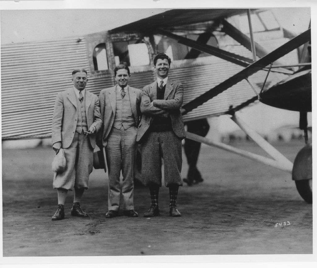 While A.J. Edwards did work for Ryan Airlines previously, at the time this photo was taken he was the sales manager for Prudden-San Diego Airplane Company. Here, he is standing to the left in front of the Prudden TM-1 Trimotor, F.W. Hemingway is in the center, and George H. Prudden (the tallest in the photo) is on the right.